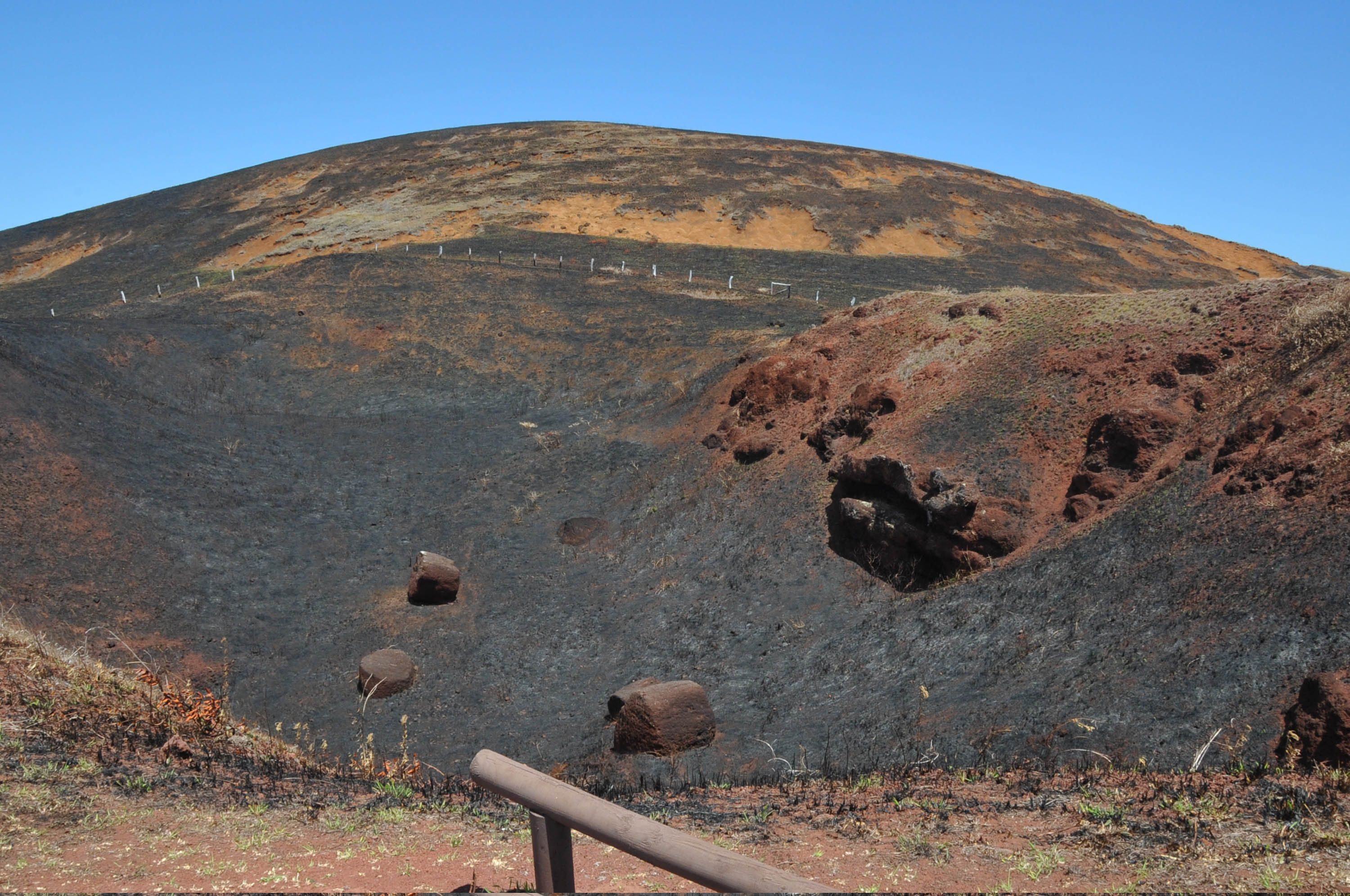 SMALL VOLCANIC CRATER WHERE THE STONE FOR THE TOP KNOTS WAS EXCAVATED. ONLY ABOUT 60 OF THE MOAI EVER HAD TOP KNOTS